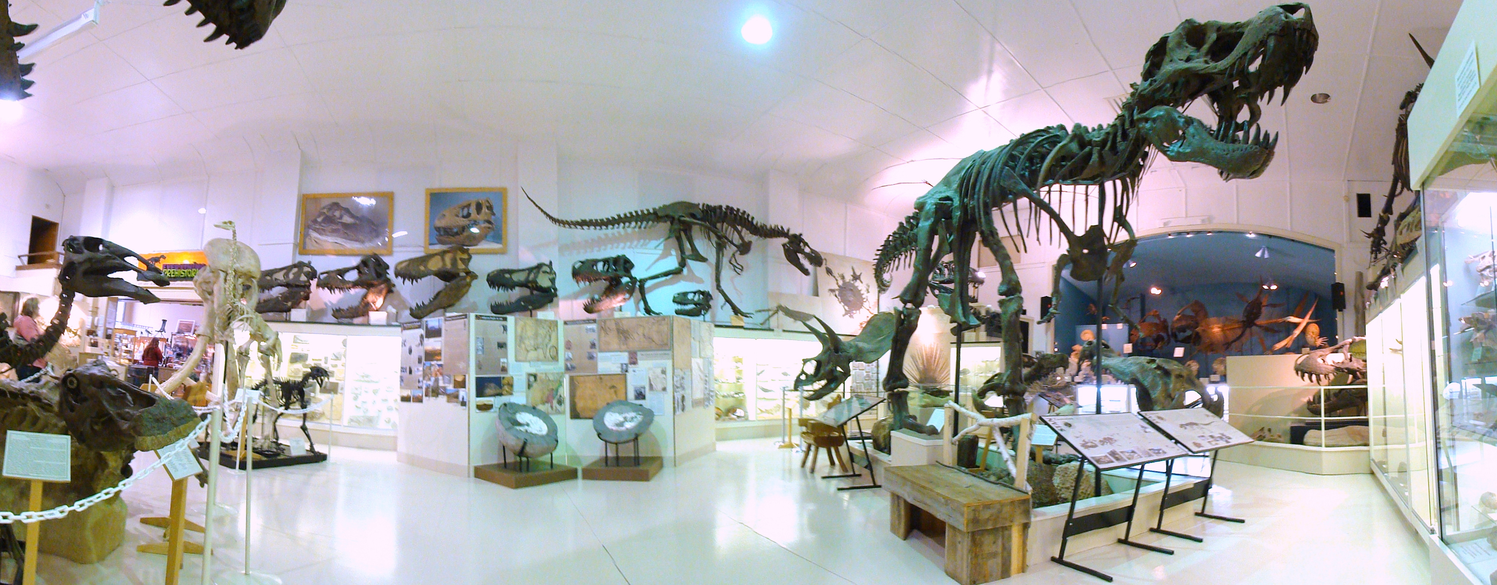 This Panoramic Photo of the original Stan (on the right) was taken at Black Hills Institute of Geological Research, Inc. from Hill City, South Dakota. Originally shared Google Panoramio page is